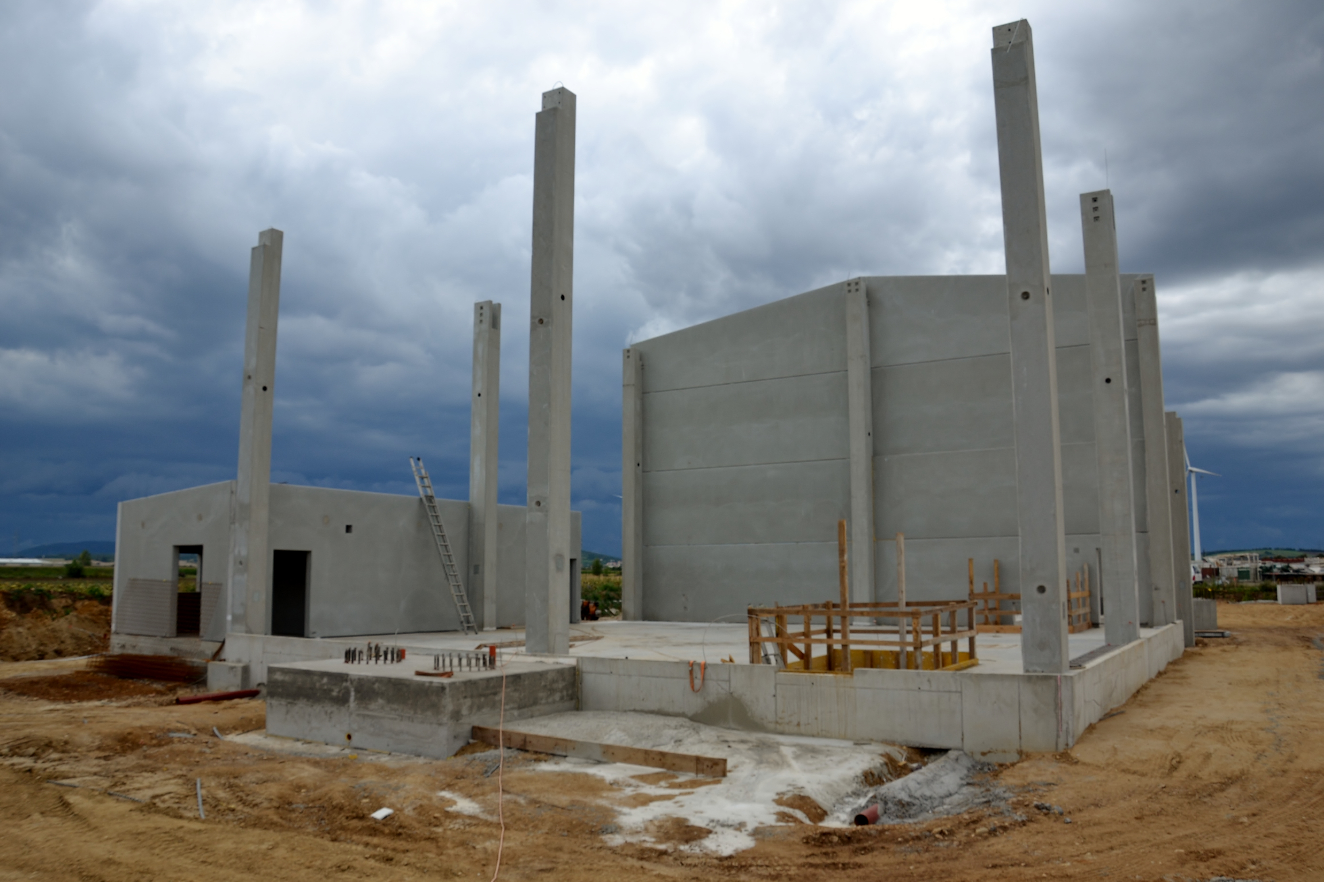 Concret Steel part